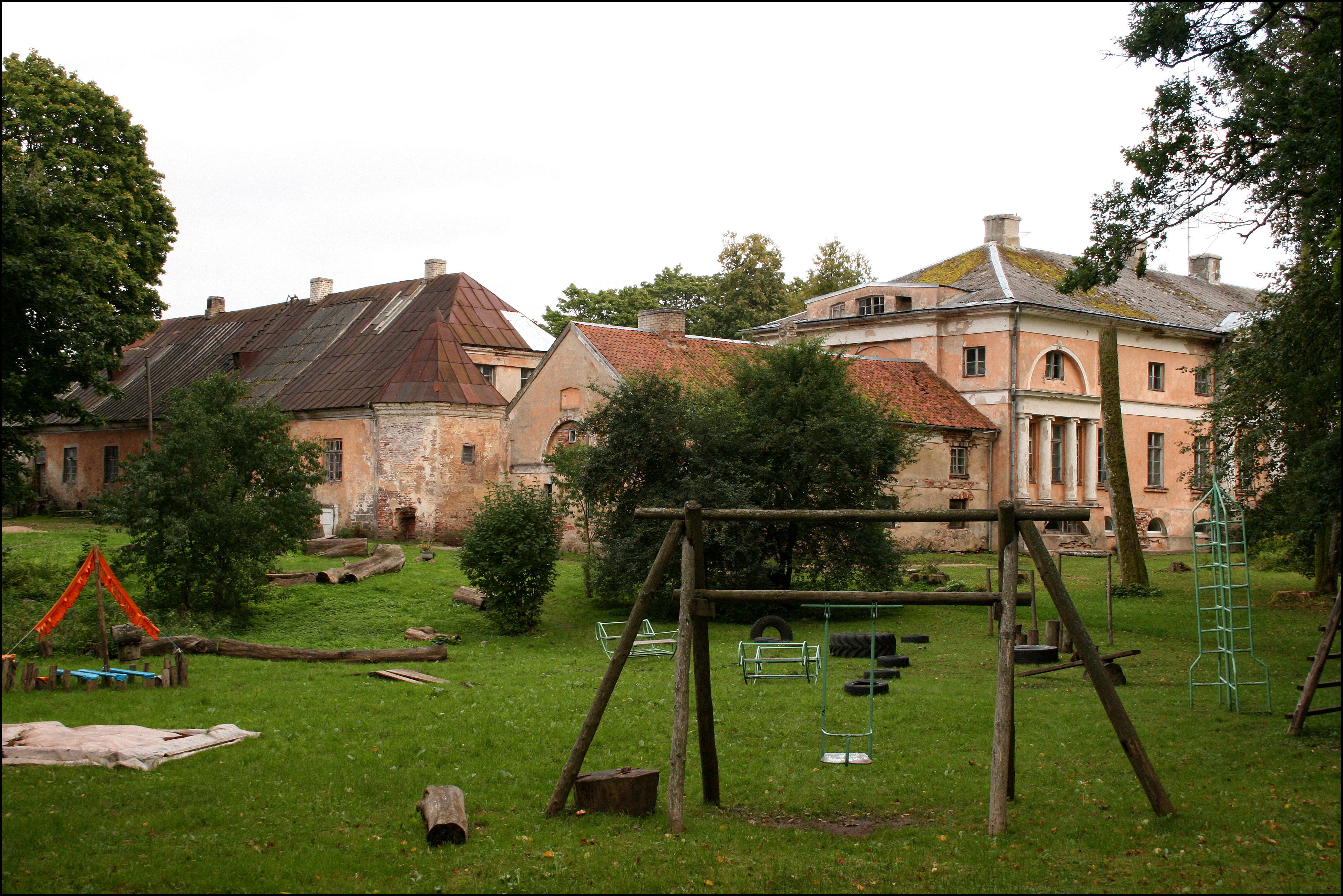 School Playground and Estate Buildings near Laidi Palace